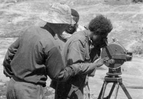 Expedition member (Cutting?) explaining the movie camera on tripod to two men. Shows the Akeley "pancake" camera from the side. 1927. Name of Expedition: Daily News Abyssinian Expedition Participants: Wilfred Osgood, Louis Agassiz Fuertes, C. Suydam Cutting, Jack Baum, Alfred M. Bailey Expedition Start Date: September 7, 1926 Expedition End Date: May 20, 1927 Purpose or Aims: Zoology Mammals and Birds Location: Africa, Ethiopia [Abyssinia] Original material: 4x5 inch interpositive film Digital Identifier: CSZ55344 Learn more about The Field Museum's Library Photo Archives.